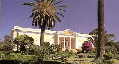 Digital photo of former "Palazzo del Governatore" in Asmara (Eritrea), taken by myself in a 2002 travel to Africa